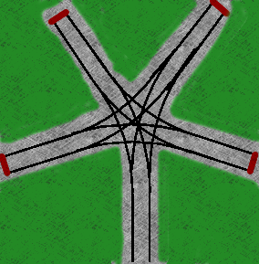 Drawing of the star track device, used to reverse steam locomotives where a turntable is not easily maintainable.